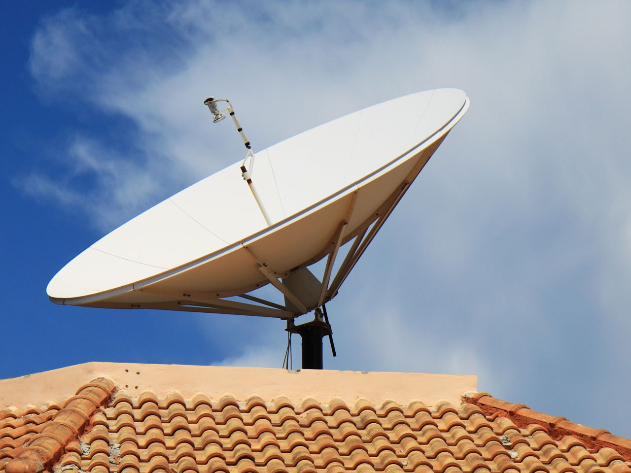 Parabolic antenna for the reception of satellite transmission of TV programmes on a roof.